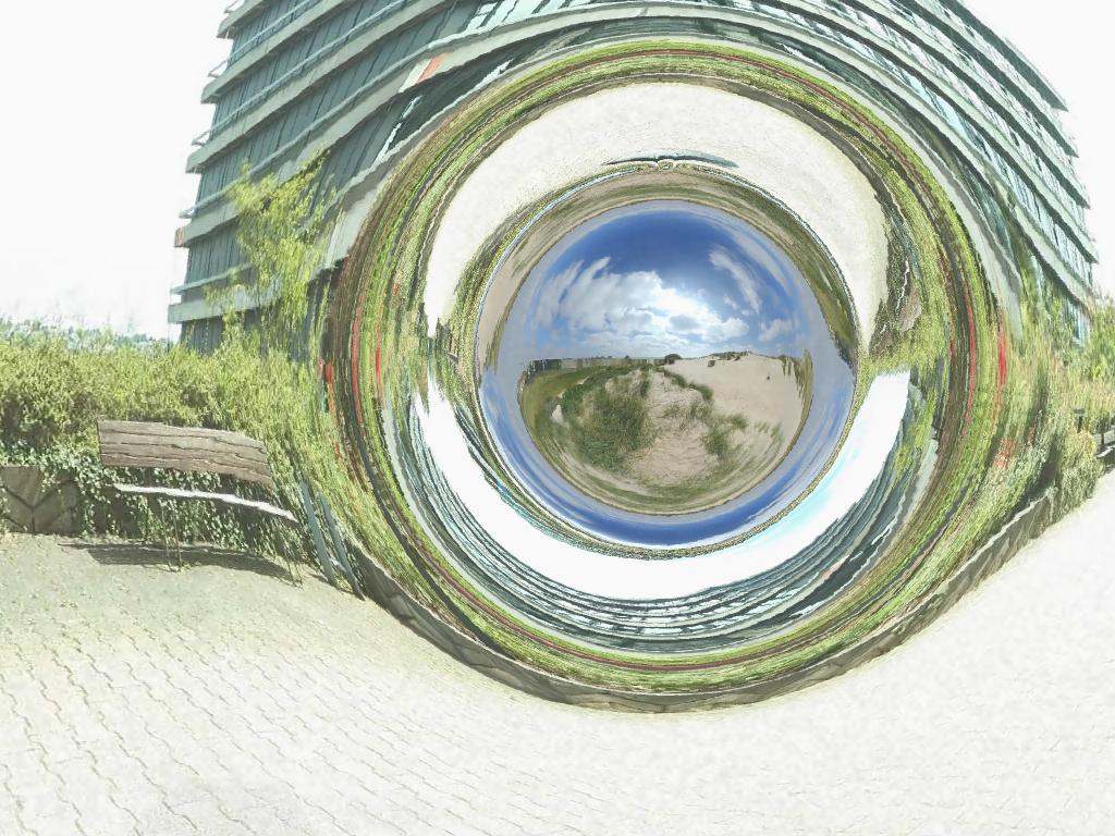 Wormhole: Wormholes are traversable connections between two universes or between two distant regions of the same universe. The wormhole shown here connects the place in front of the physical institutes of Tübingen university with the sand dunes near Boulogne sur Mer in the north of France. The image is calculated with 4D raytracing in the Morris Thorne wormhole metric d s 2 = − d t 2 + d l 2 + ( b 0 2 + l 2 ) ( d θ 2 + sin 2 ⁡ θ d ϕ 2 ) {\displaystyle ds^{2}=-dt^{2}+dl^{2}+(b_{0}^{2}+l^{2})(d\theta ^{2}+\sin ^{2}\theta d\phi ^{2})} , b 0 = {\displaystyle b_{0}=} throat radius.